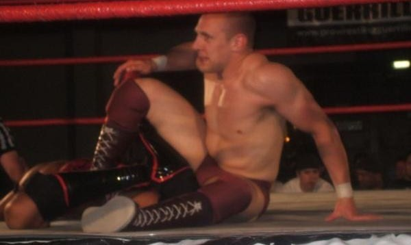 A picture of brian danielson i took at ROH show in Cincinnati Ohio in 2006